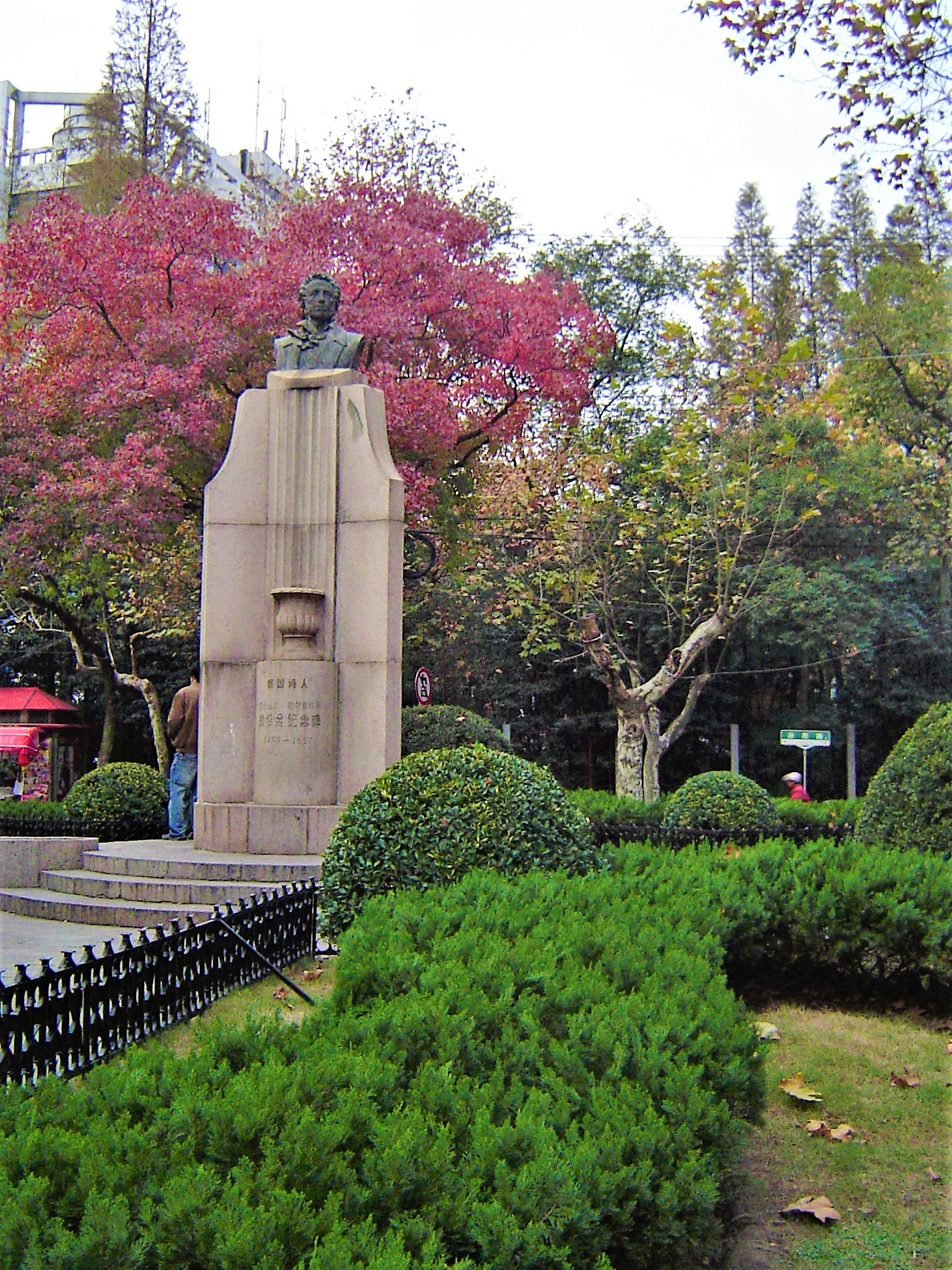 普希金像 汾阳路、岳阳路、桃江路交汇处 A memorial to Alexander Pushkin in Shanghai, China. The memorial is in a small park in the heart of Shanghai's French district. Nearby are the former residences of Bai Xianyong (and Pai Hsien-yung) and Chiang Kai-shek, and the Shanghai Conservatory of Music